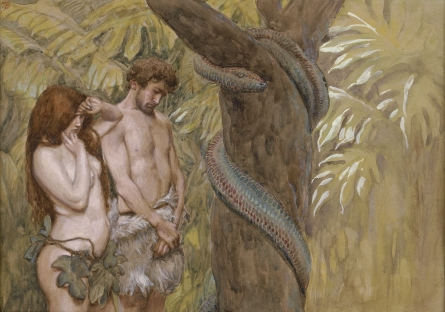 God's Curse, c. 1896-1902, by James Jacques Joseph Tissot (French, 1836-1902), gouache on board, 7 5/16 x 10 3/8 in. (18.5 x 26.3 cm), at the Jewish Museum, New York